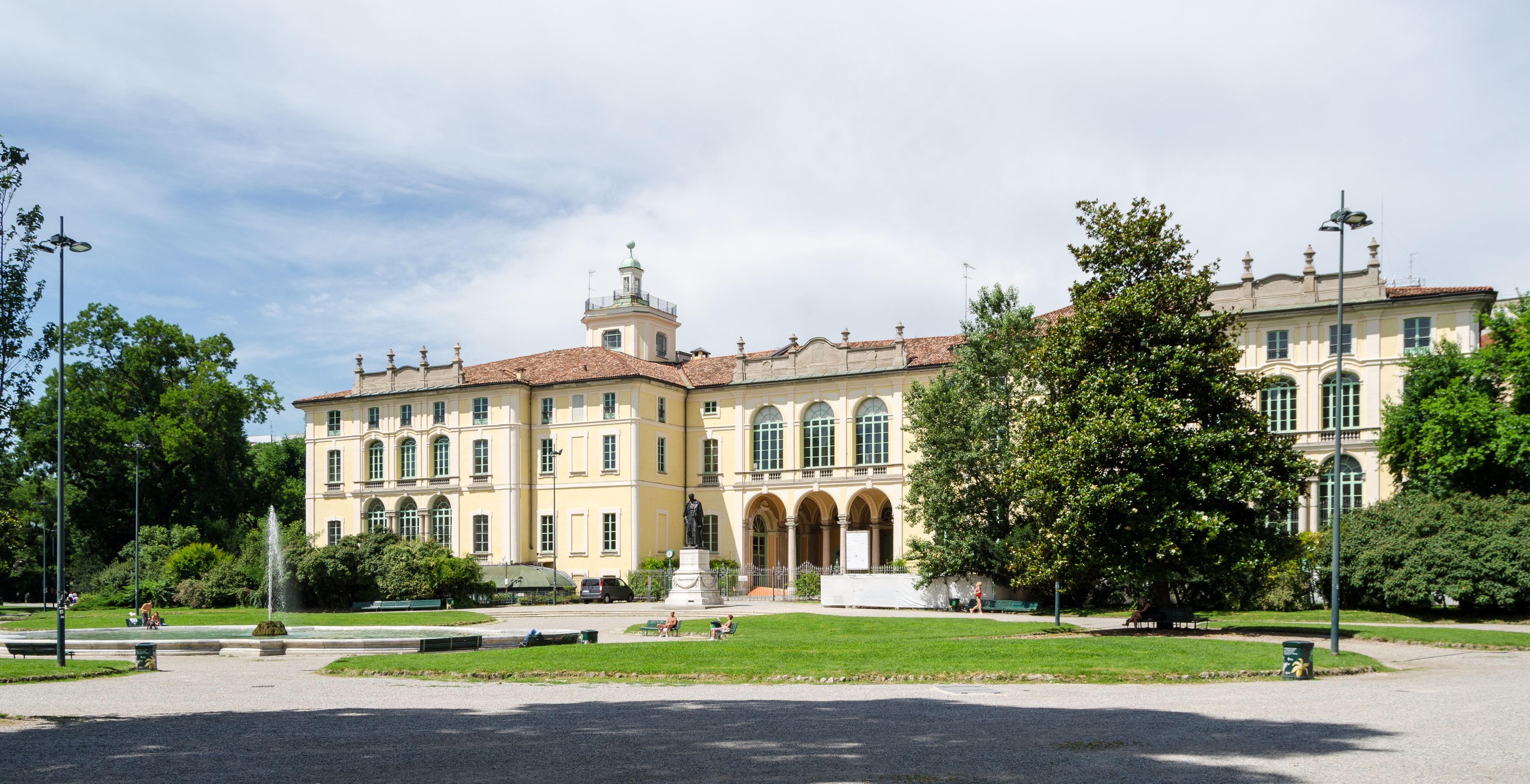 Milan (Lombardy, Italy) – Palazzo Dugnani – eastern facade, view from the Giardini Pubblici Indro Montanelli